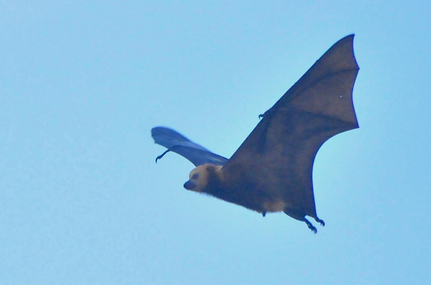 Pteropus niger - Mauritian flying fox - Greater Mascarene flying fox - Mauritius fruit bat